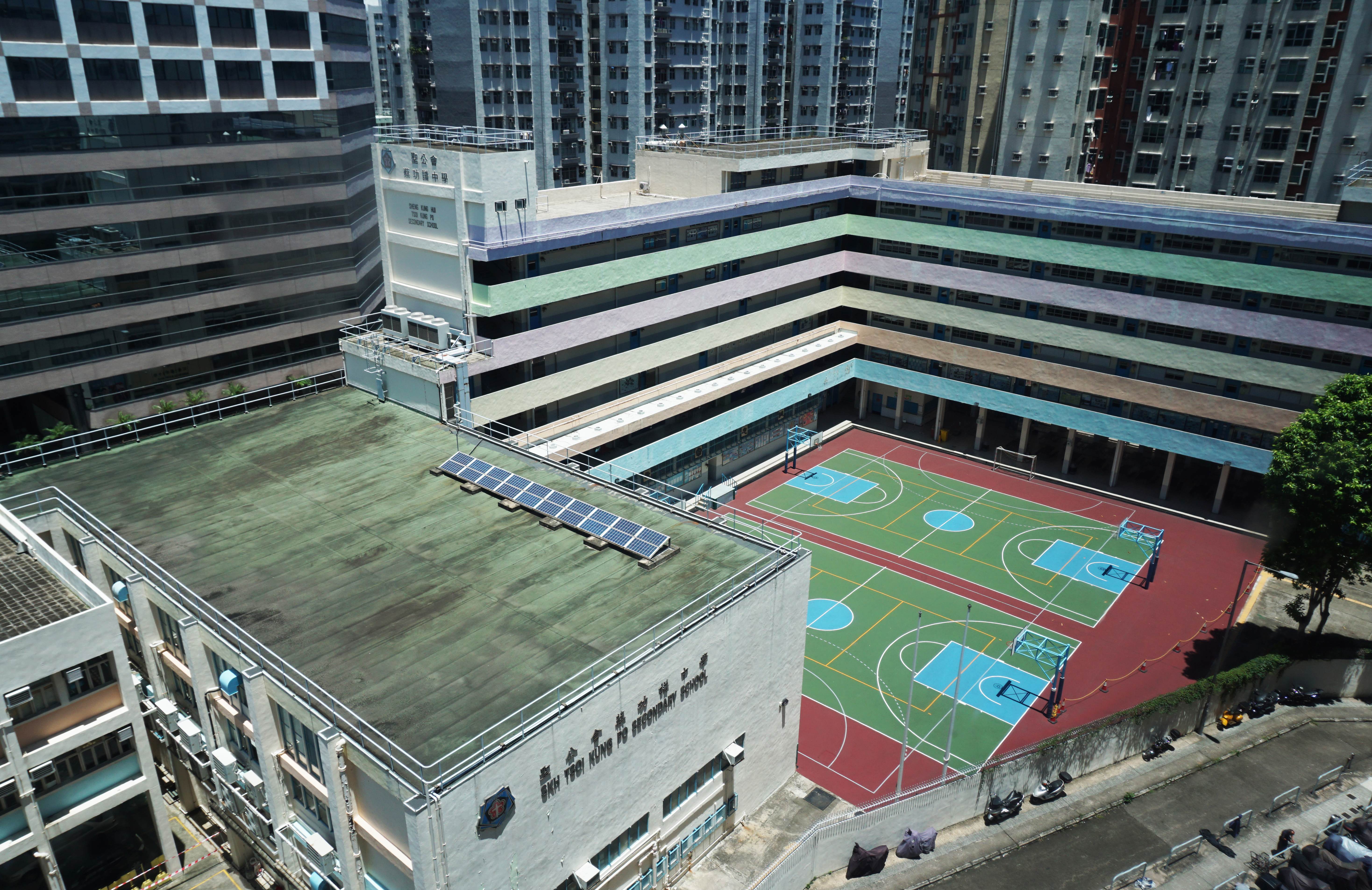 S.K.H Tsoi Kung Po Secondary School in Ho Man Tin, Hong Kong.